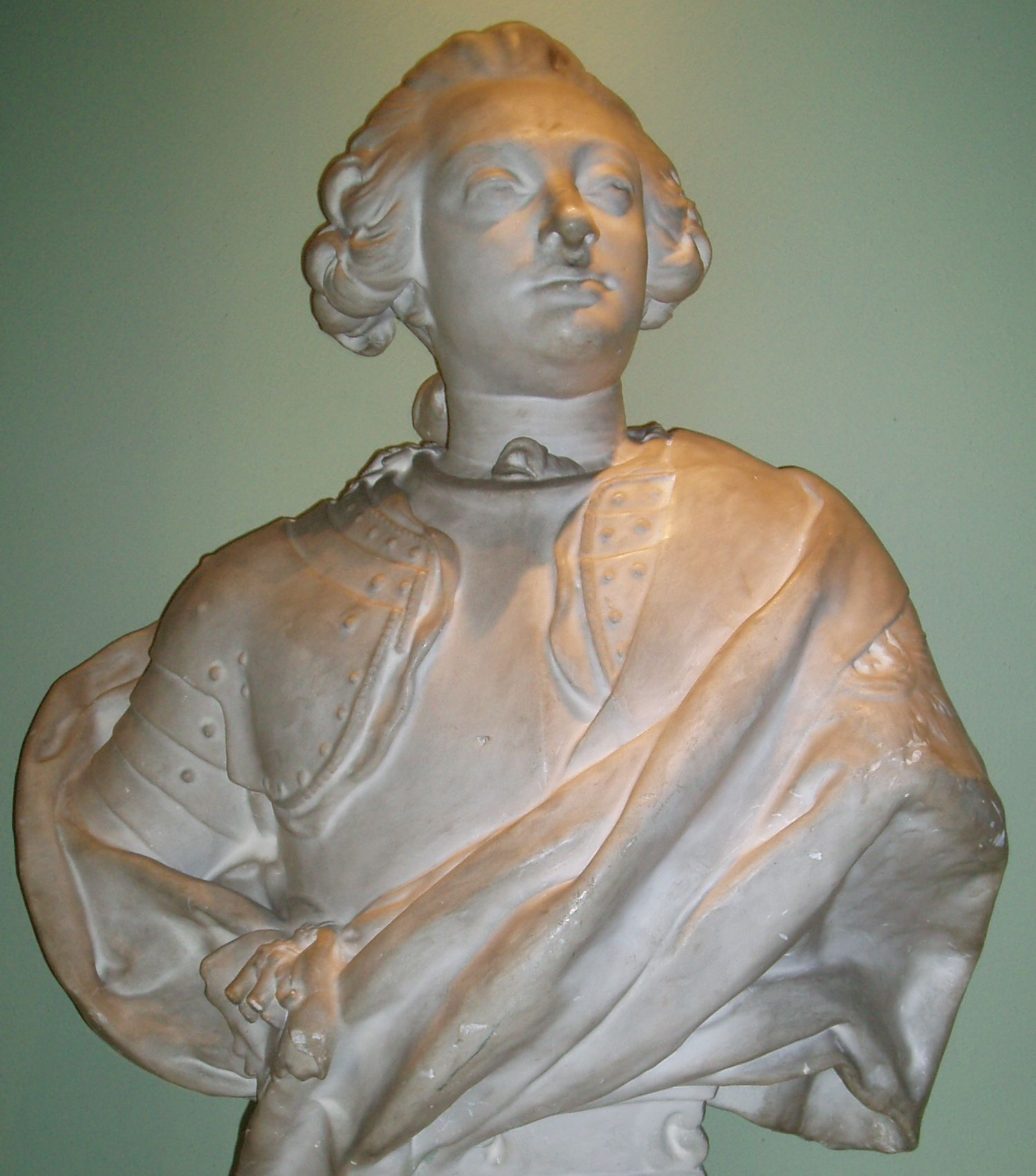 Bust of King Frederick V of Denmark